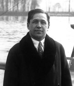 Russian engineer and inventor Ivan Makhonine (in the USA: Jean Makhonine) (1885-1973)